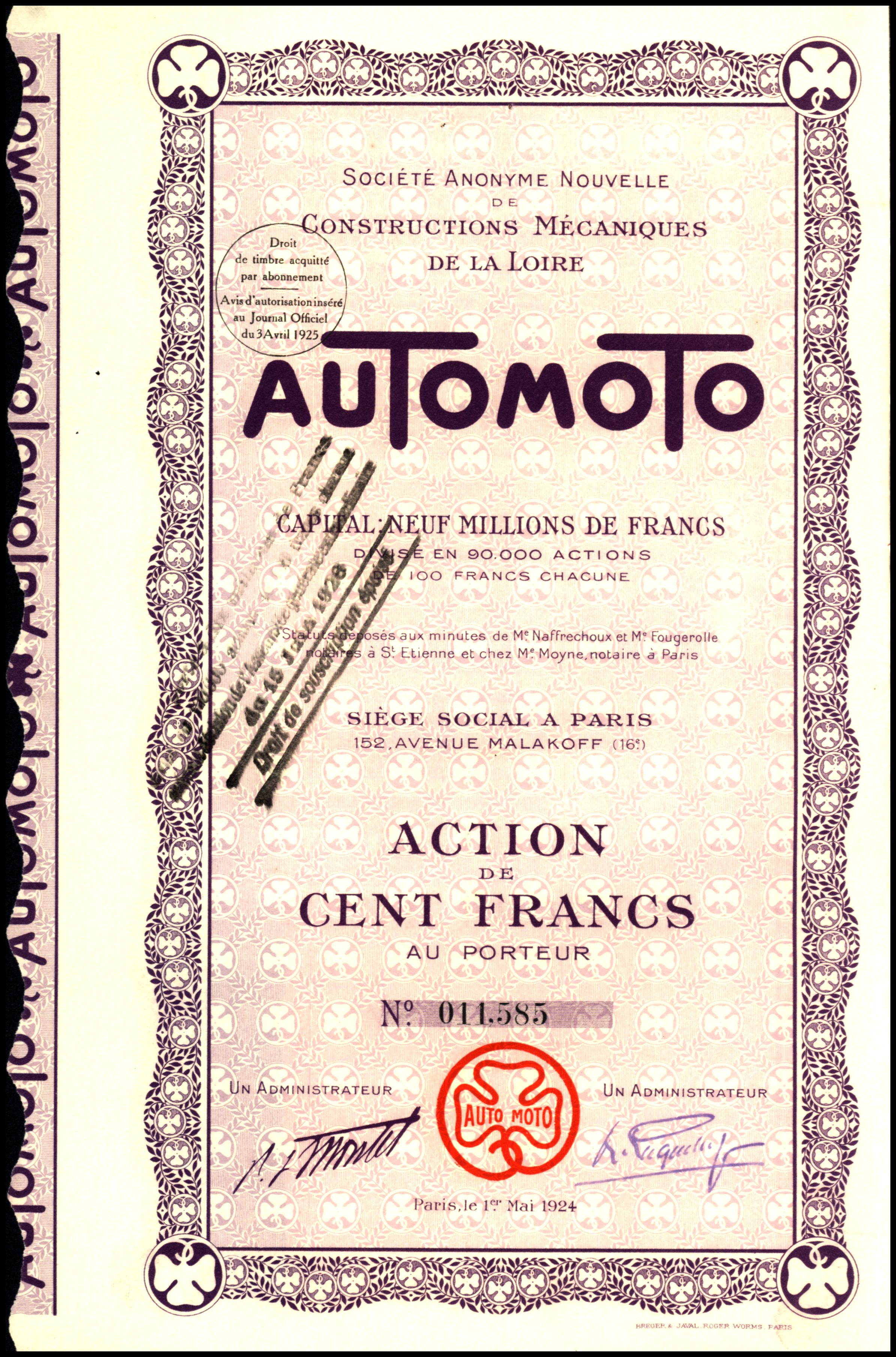 Share of the SA Nouvelle de Constructions Méchaniques de la Loire AUTOMOTO, issued 1. May 1924